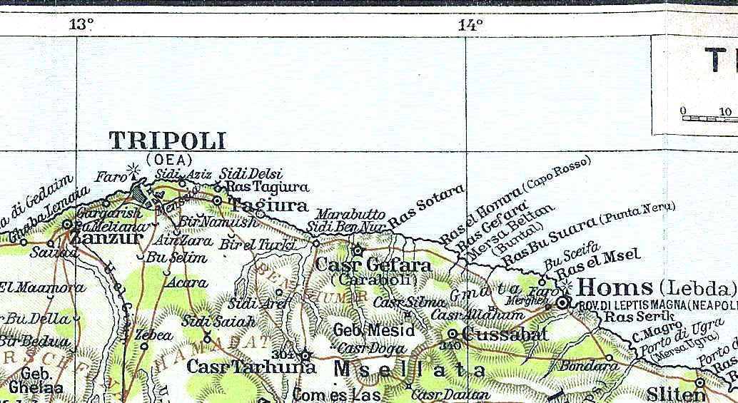 A 1913 Map of the region where Tripoli and Tajura Oasis lies, in the Italian colonial Tripolitania Province (present day northwest Libya.